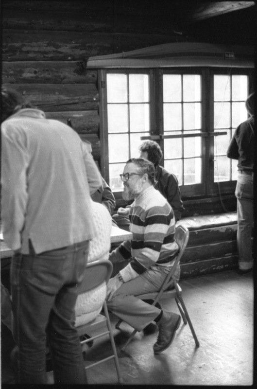 Dennis Ritchie in a chalet in the mountains surrounding Salt Lake City, Utah--Summer 1984, Usenix conference